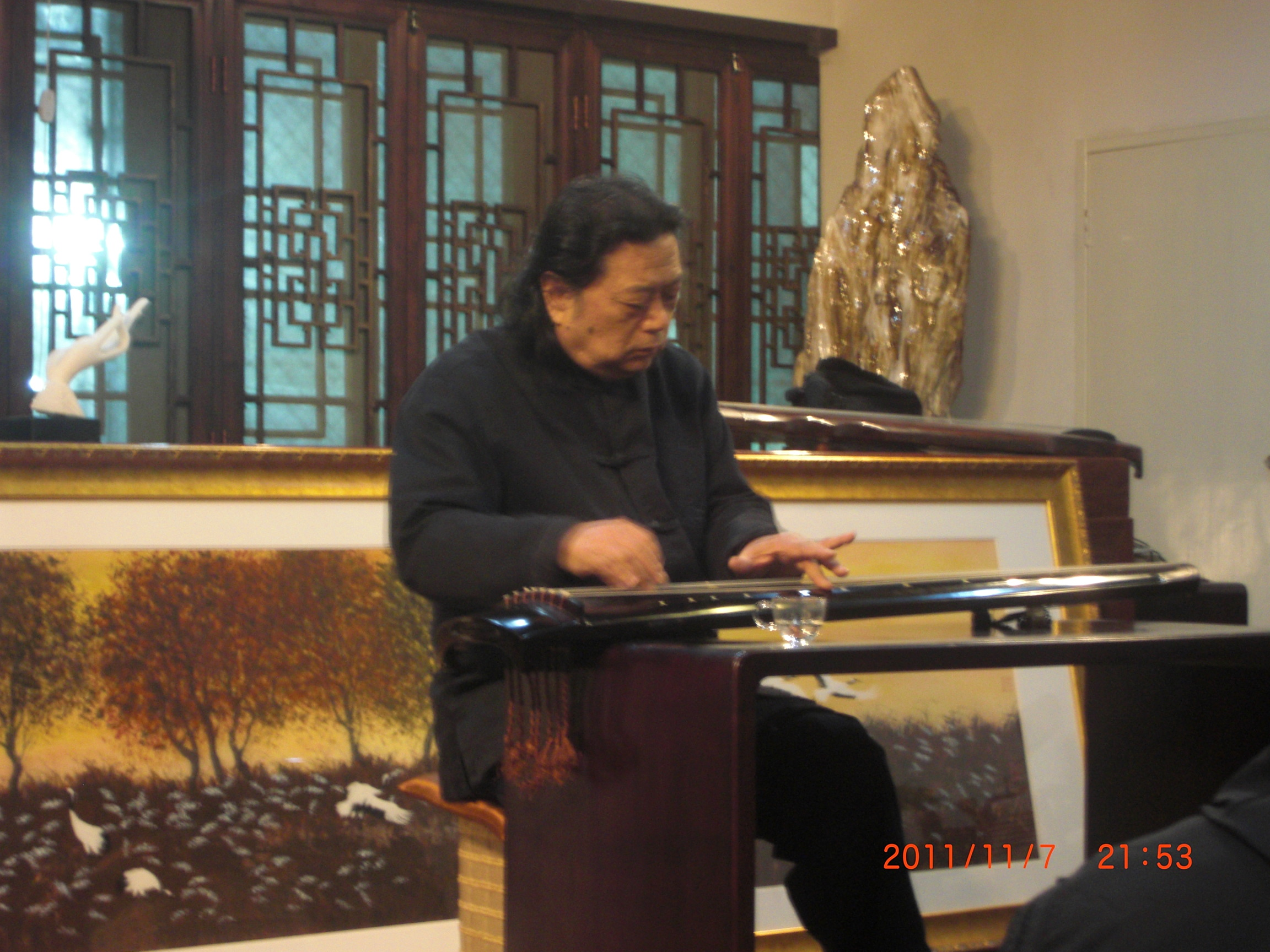 Prof. Ding Chengyun gave performance in Peking Unverisity, Nov. 2011